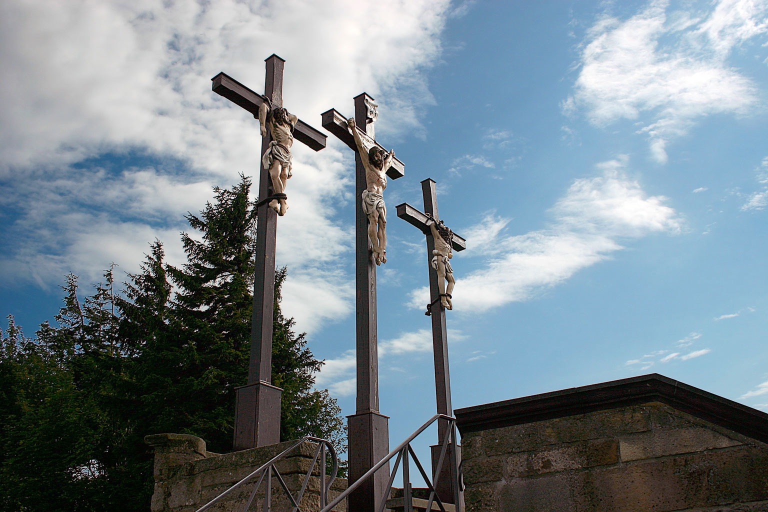 The Kreuzberg is one of the Rhön Mountains in southern Germany located in the Bavarian part of the Rhön, in the province of Lower Franconia.